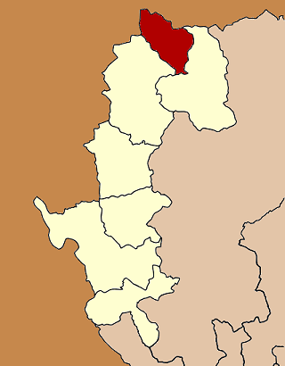 Map of Mae Hong Son province, Thailand, highlighting Amphoe Pang Mapha (อำเภอปางมะผ้า).